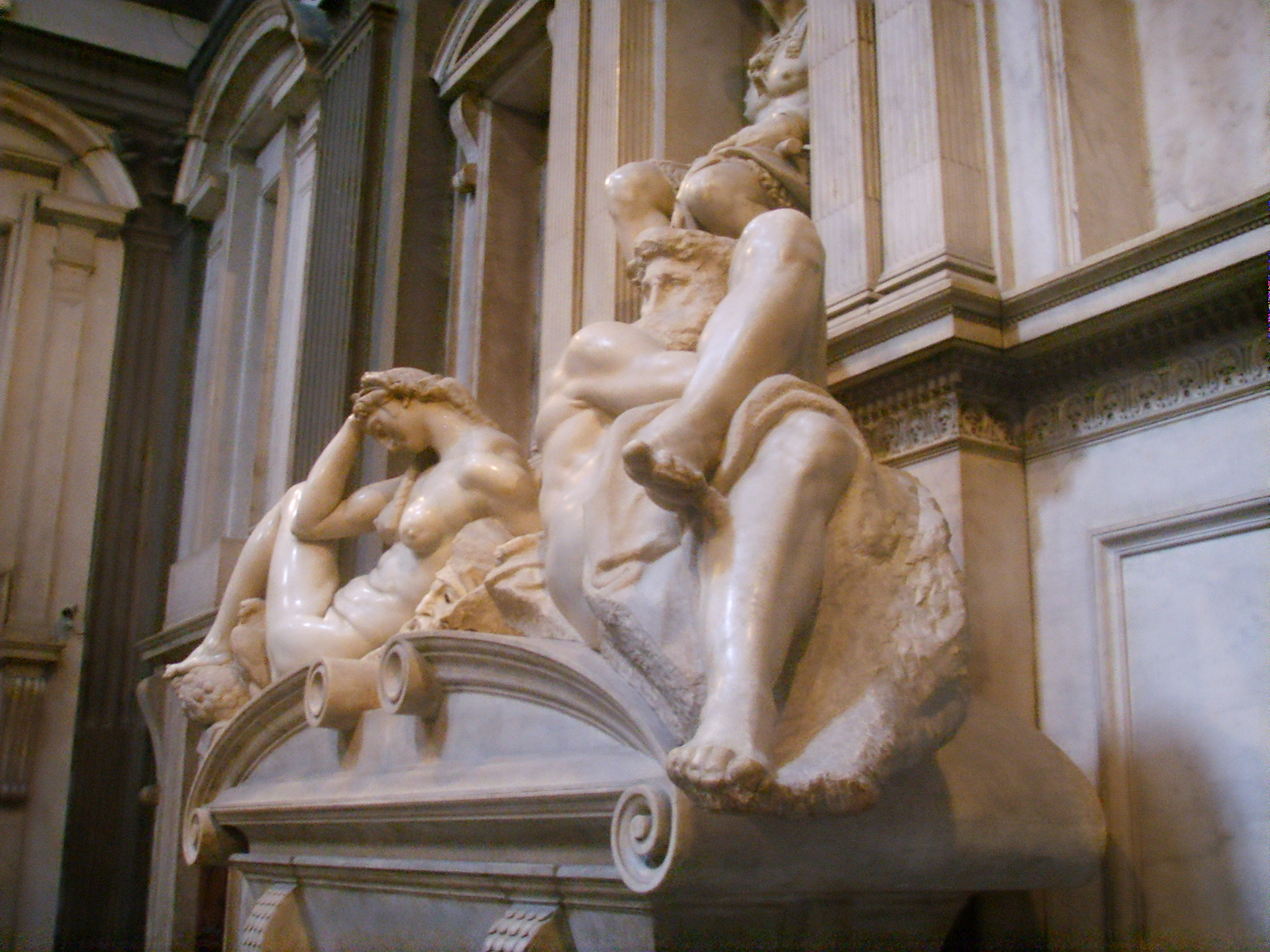 Michelangelo's Sagrestia Nuova in the Cappelle Medicee (Medici Chapels) of Florence, Italy. Detail of the tomb of Giuliano de' Medici, Duke of Nemours.